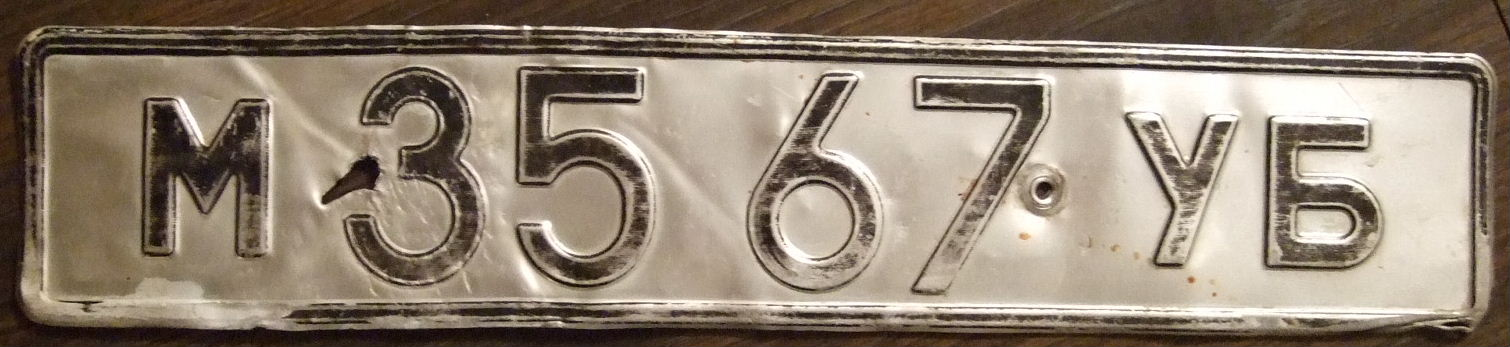 Passenger license plate from Ulan Bator, Mongolia.